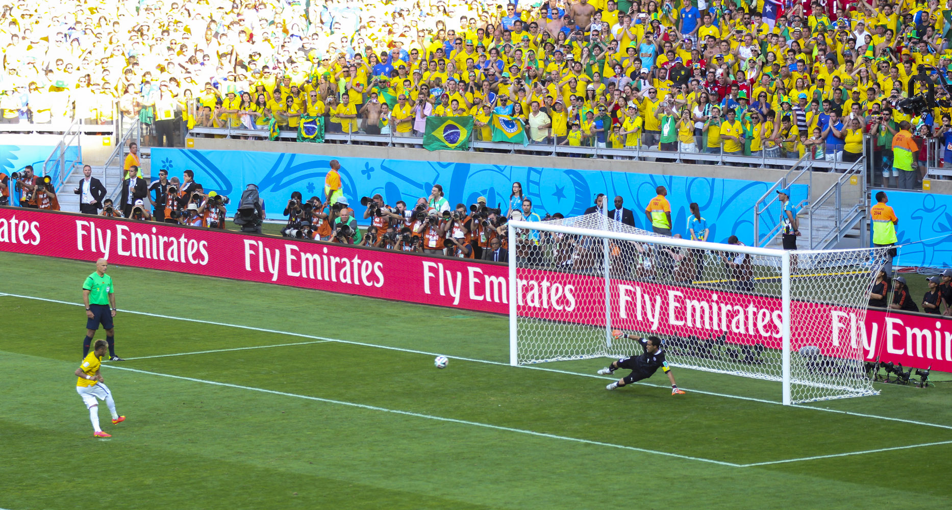 Brazil vs. Chile in Mineirão